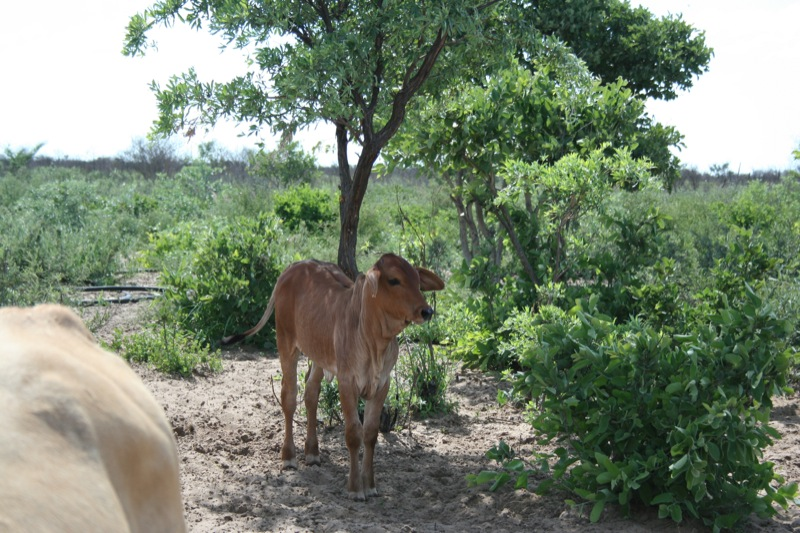 Baby Cow, Sandveld, Botswana